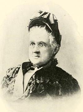 An older white woman with white hair, wearing glasses, a hat, and a jacket.